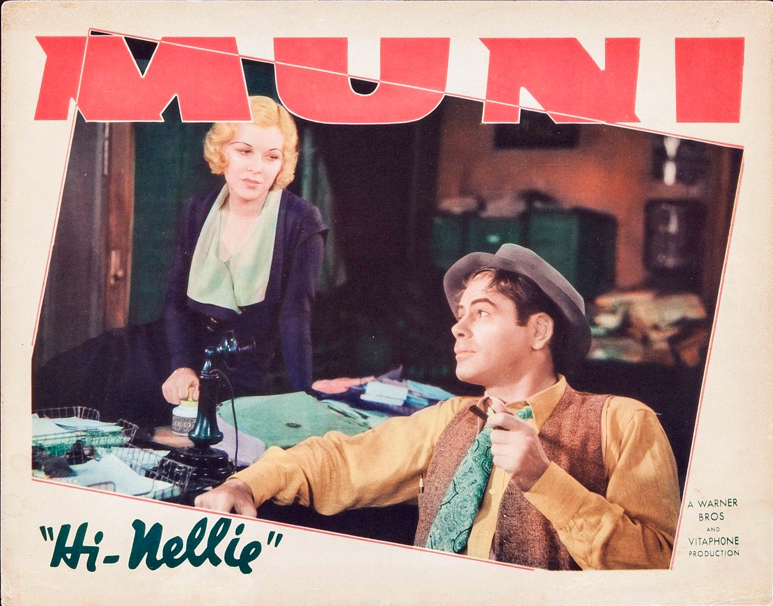 Lobby card for the 1934 film Hi Nellie. Pictured are Paul Muni and Glenda Farrell.